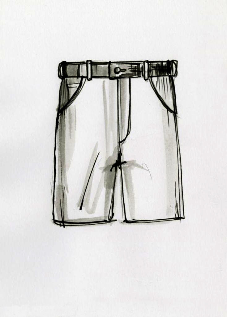 Drawing of the Thesaurus concept : 'shorts'. Exposed bifurcated garments extending from the waist or hip to any portion of the leg above the knee. (AAT)